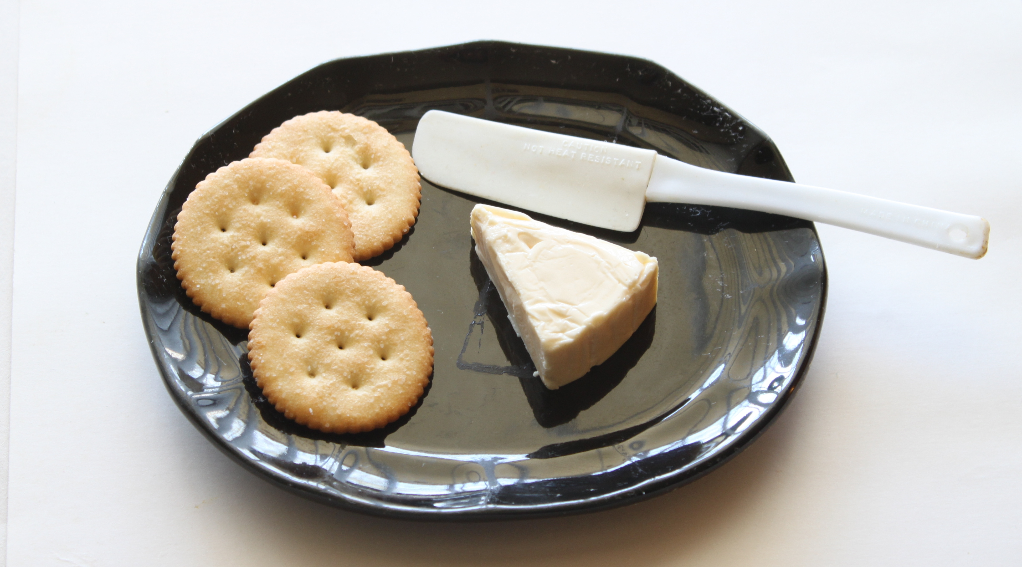 A wedge of Laughing Cow brand spreadable cheese Original Creamy Swiss flavor.